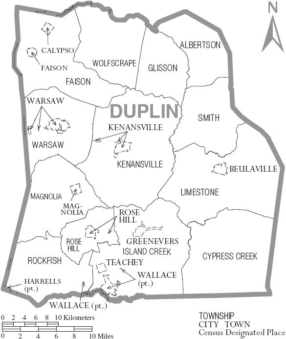 Map of Duplin County, North Carolina, United States with township and municipal boundaries